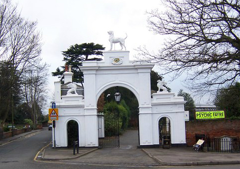 Dog Gate Bourne Hall and Spring Street Ewell